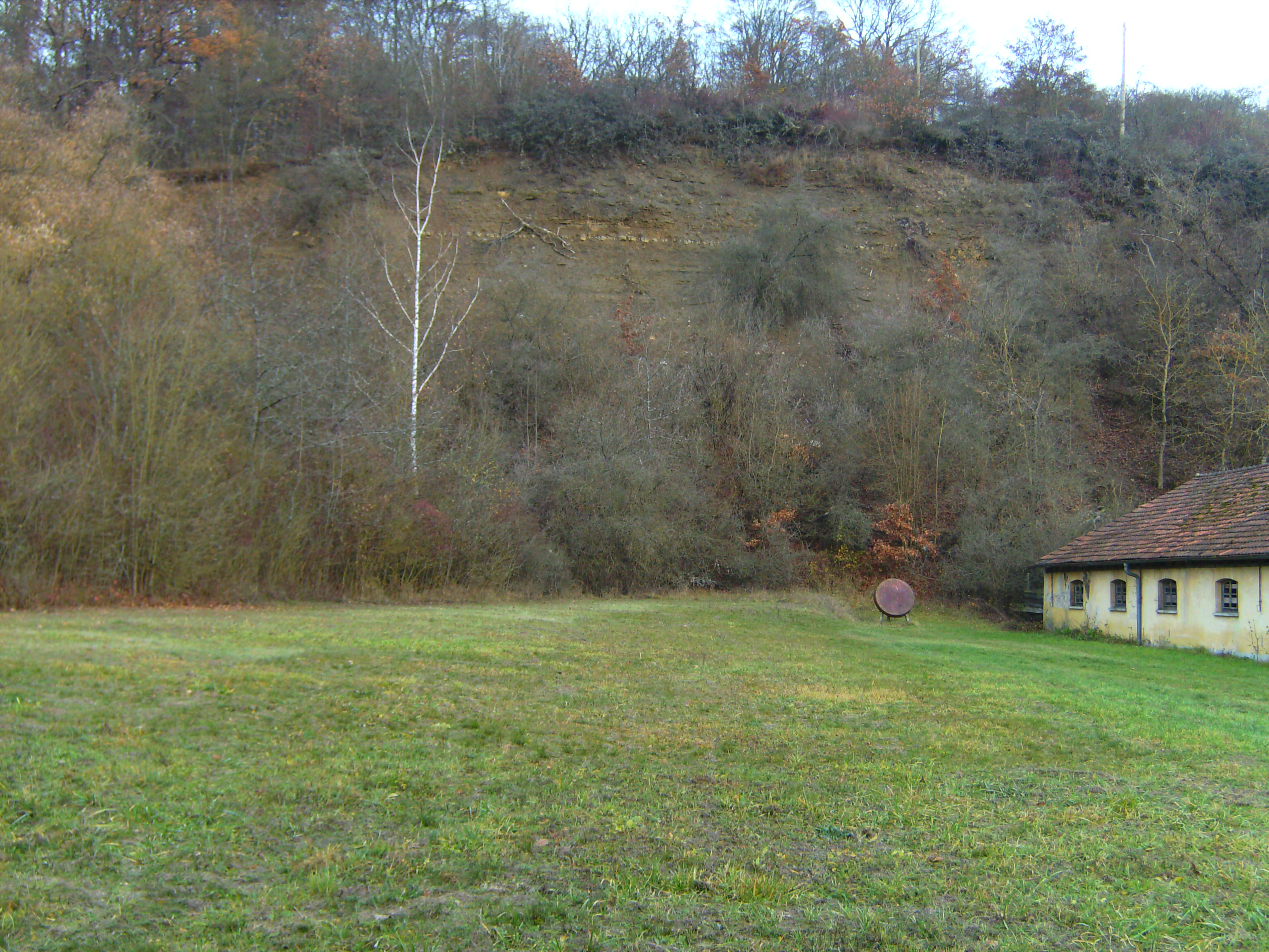 Quarry Höllental Schweinfurt, Upper Muschelkalk, Type Locality of Euestheria franconica REIBLE 1962